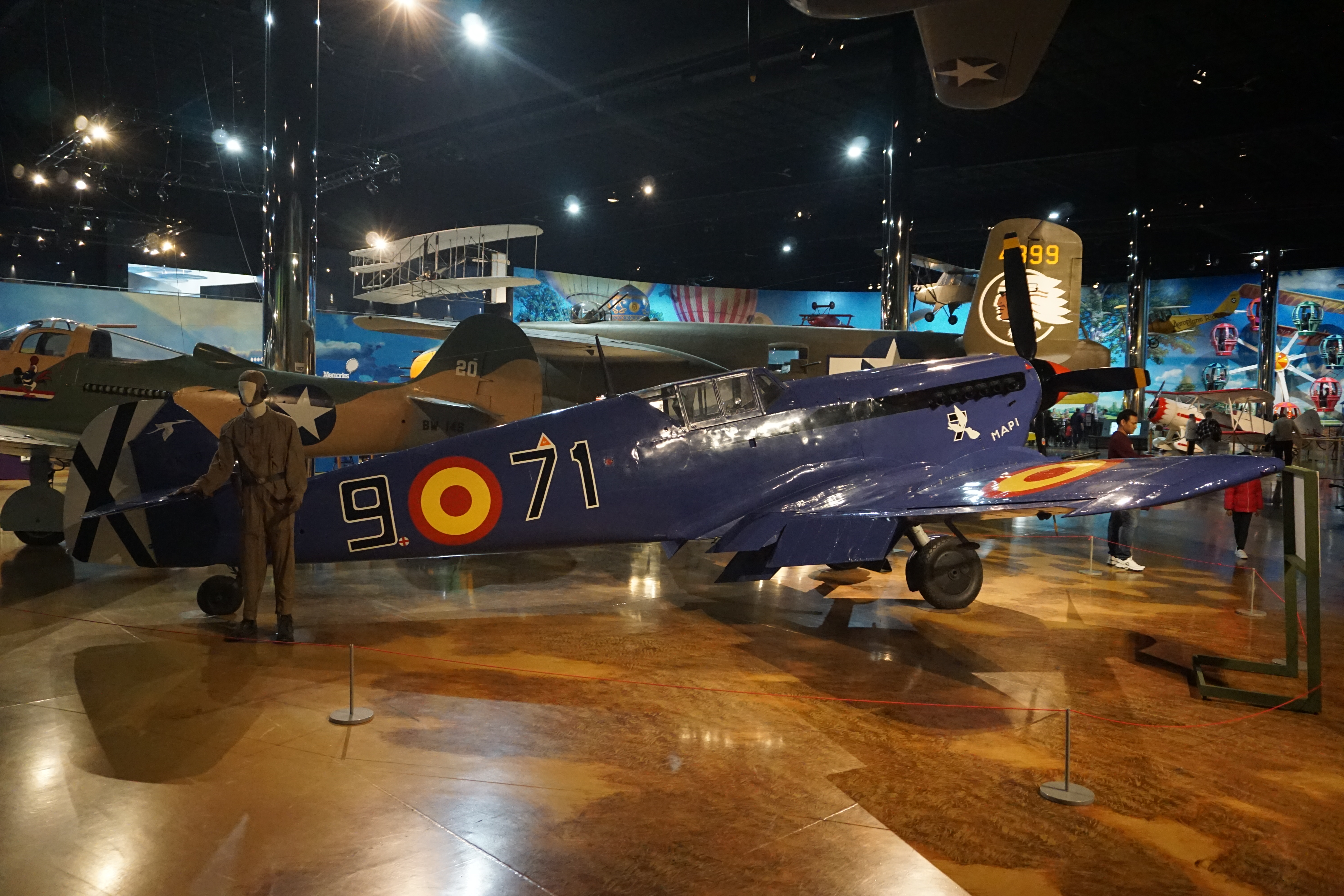 An Hispano Aviación HA-1112 Buchón on display at the Air Zoo at Kalamazoo/Battle Creek International Airport in Portage, Michigan (United States).